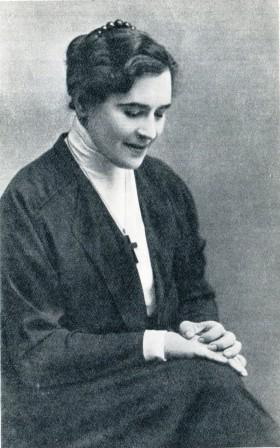 Olga Knipper as Masha (Three sisters), Moscow Art Theatre, 1901 (А. П. Чехов. Пьесы. М., 1972. С. 230)